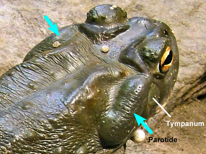 Incilius alvarius (Head with Parotoid gland)